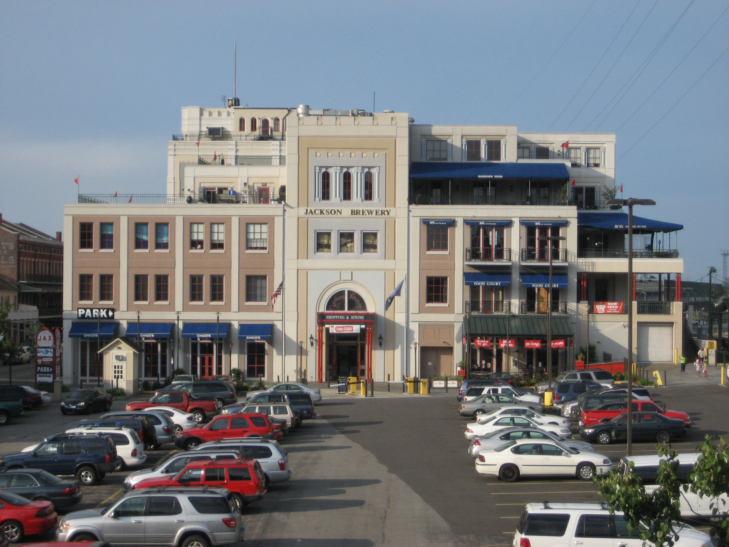 New Orleans: The upper Jax Brewery Building in the French Quarter.